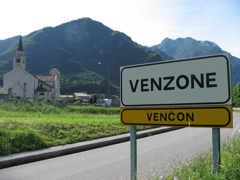 Bilingual roadsign of the village Venzone/Venčon in Italian and Furlan, the friulian language Furlan: Segnaletiche stradâl bilengâl in comun di Venčon Boarisch: S'zwoaschbråchige Oatsschüdl fu da Oatschåft Venzone/Venčon im Friaul. Om schdeds auf Italienisch unt af Furlan. Fria håd ma auf Daidsch a Baischldoaf (Peuscheldorf) dazua gsågt